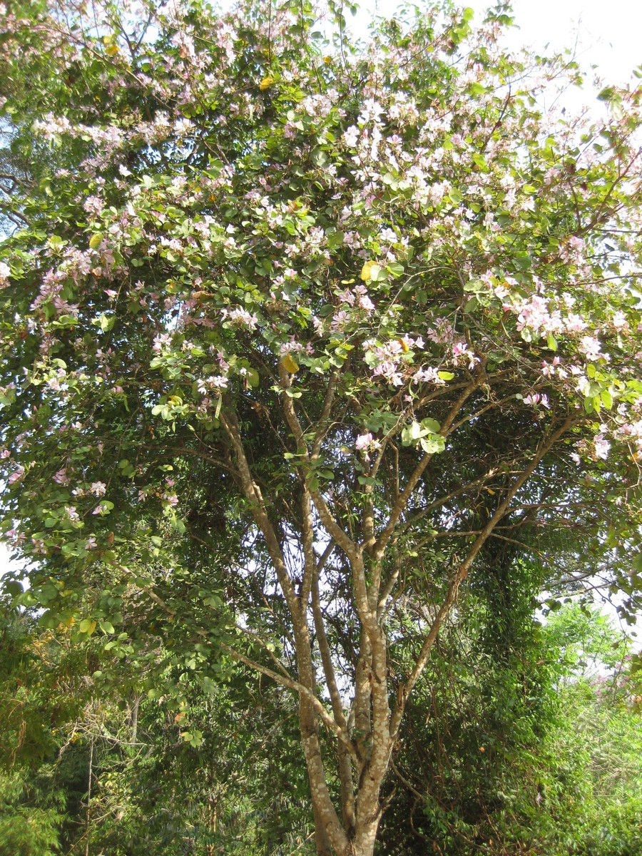 Photographed at the Queen Sirikit Botanic Garden (Chiang Mai Province, Thailand) in March